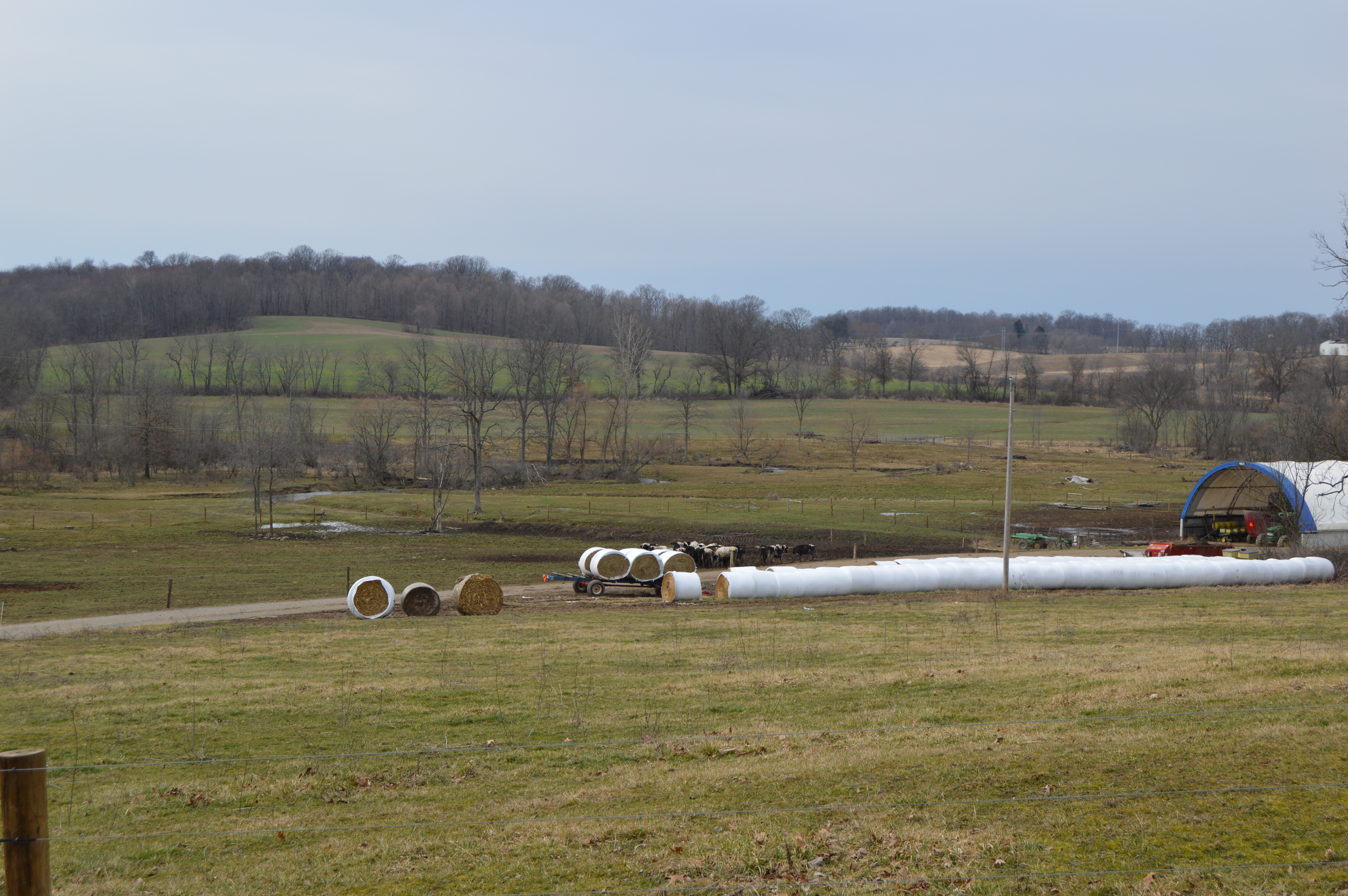 Fields and cattle at a dairy farm on North Liberty Road just north of the Proper Road intersection in northwestern Monroe Township, Knox County, Ohio, United States.